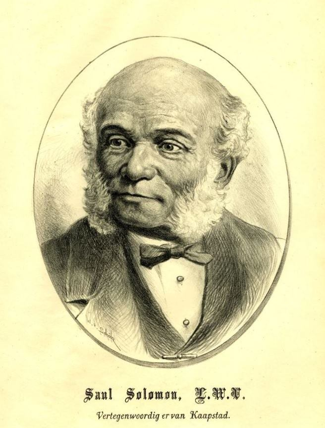 Saul Solomon. Member of Parliament for Cape Town and founder of the Cape Argus. Cape Colony. 1883.